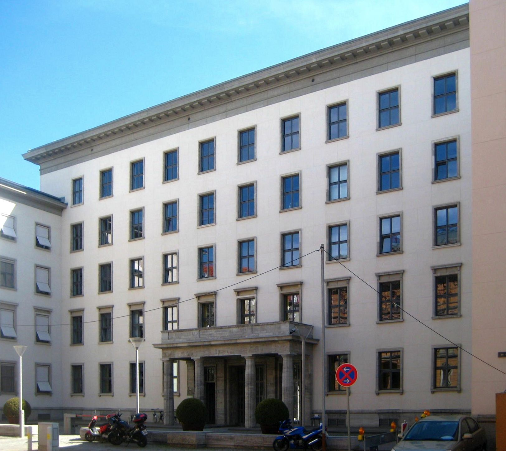 Annex building of the former Reich Ministry of the Interior at Dorotheenstraße No. 93 in Berlin-Mitte, later used by the GDR Ministry of Justice and now by the German Federal Parliament (Bundestag). The building was constructed from 1935 to 1937 to a design by Konrad Nonn. It was one of the first government buildings erected by the Nazis. The building has been designated as a historic landmark.